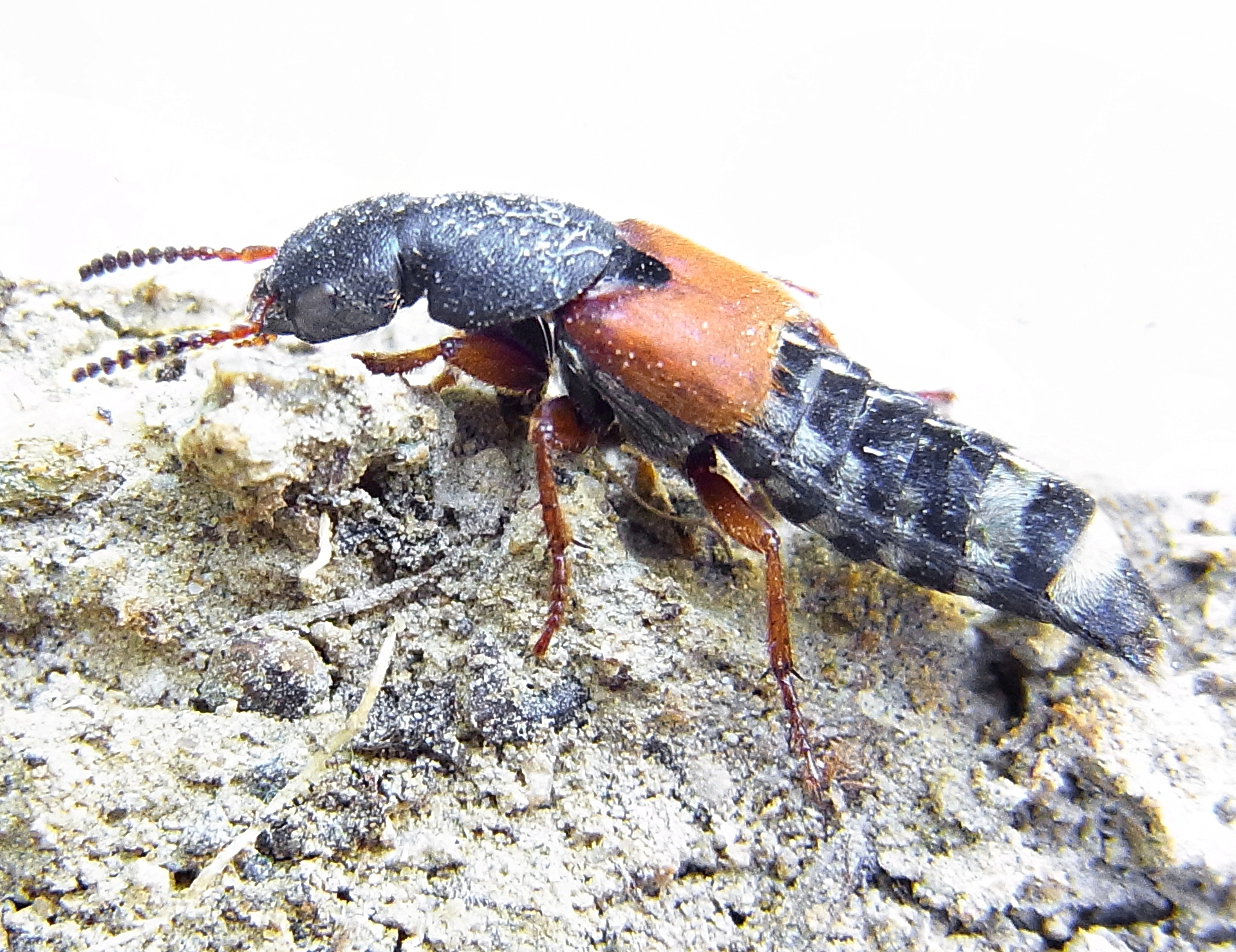 Platydracus stercorarius from Hungary, Gerecse-mountains north of town Tatabánya